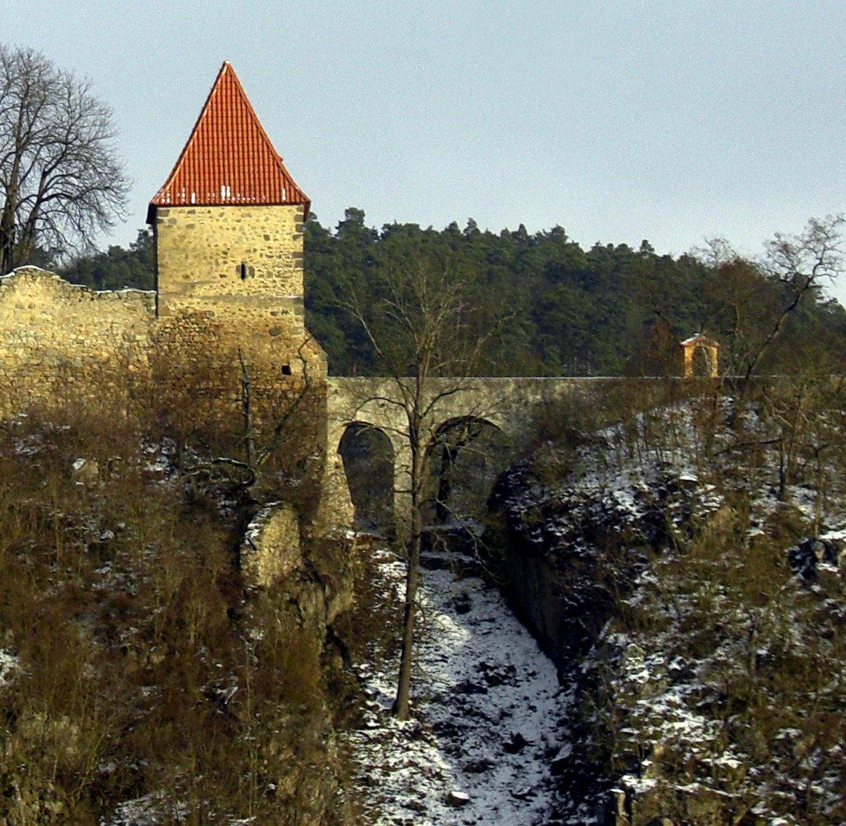 Zvíkov castle in Písek District, Czech Republic